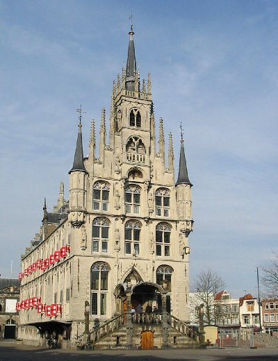 City hall of Gouda